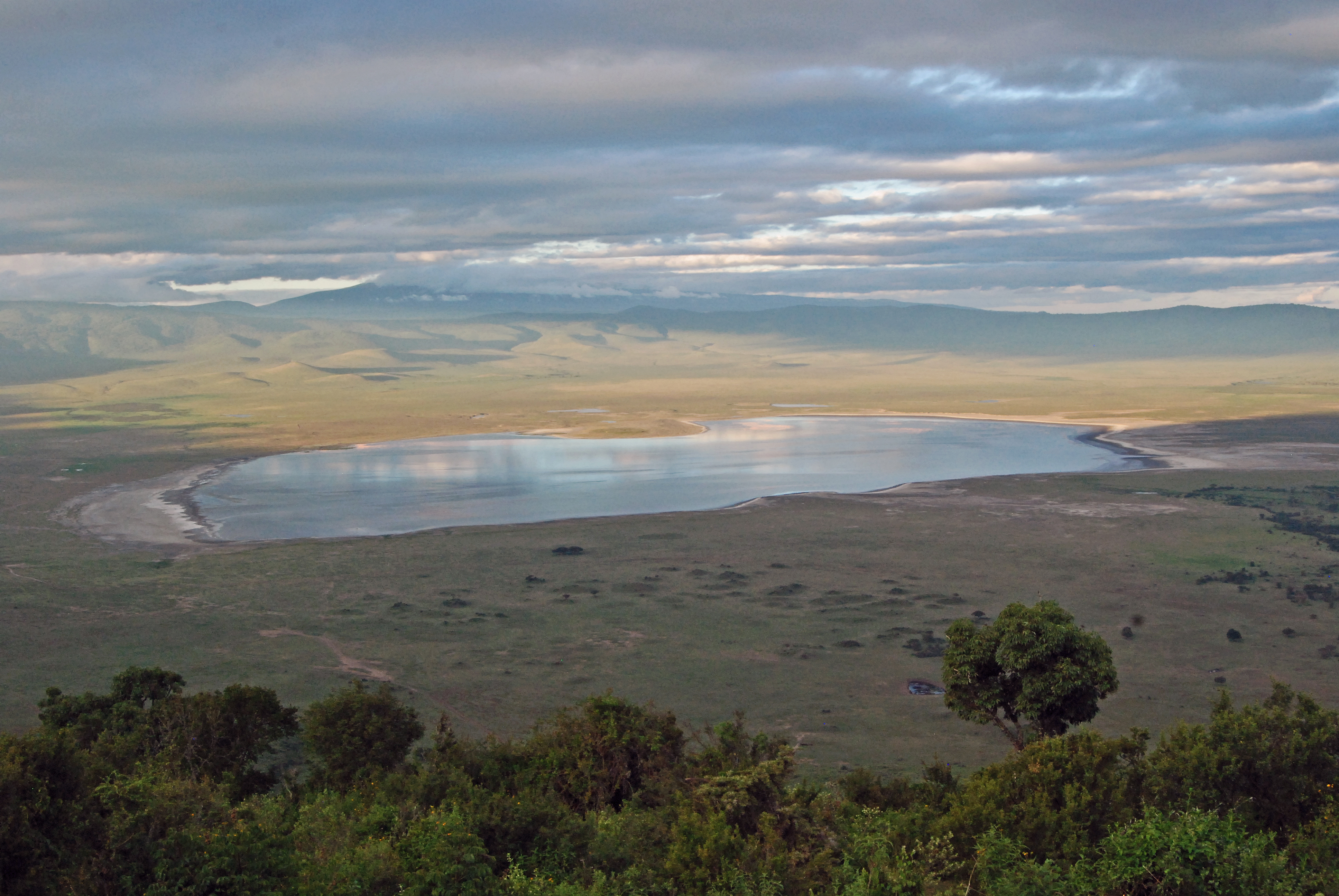 The Ngorongoro Conservation Area (NCA) is a conservation area and a UNESCO World Heritage Site. The main feature of the NCA is its large, unbroken, unflooded volcanic caldera. A dominant feature of the Ngorongoro Caldera is Lake Magadi, a shallow soda lake that supports large flocks of flamingo.